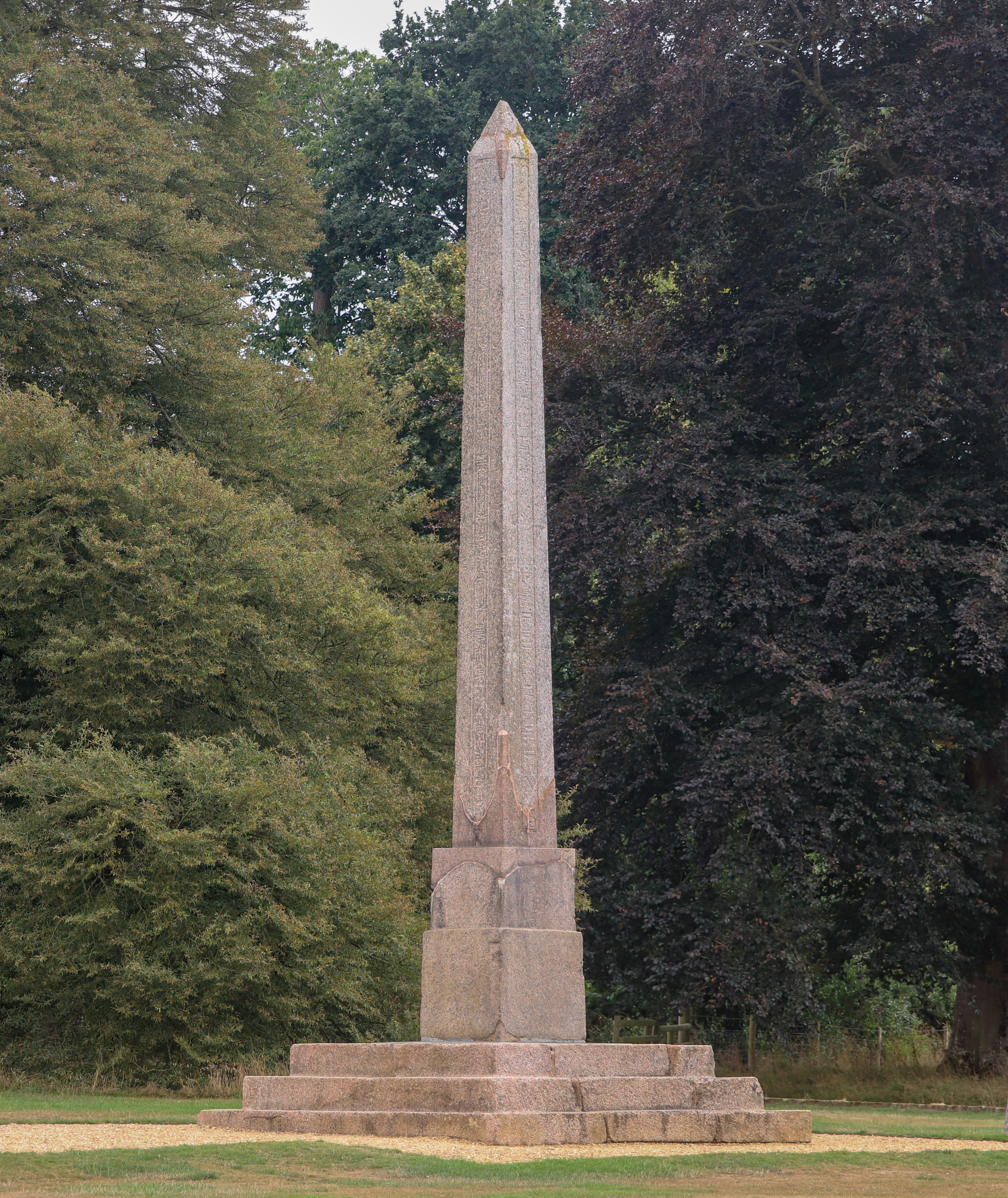 Egyptian Obelisk Kingston Lacy House